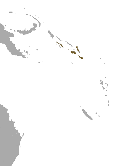 Fardoulis' Blossom Bat (Melonycteris fardoulisi) range